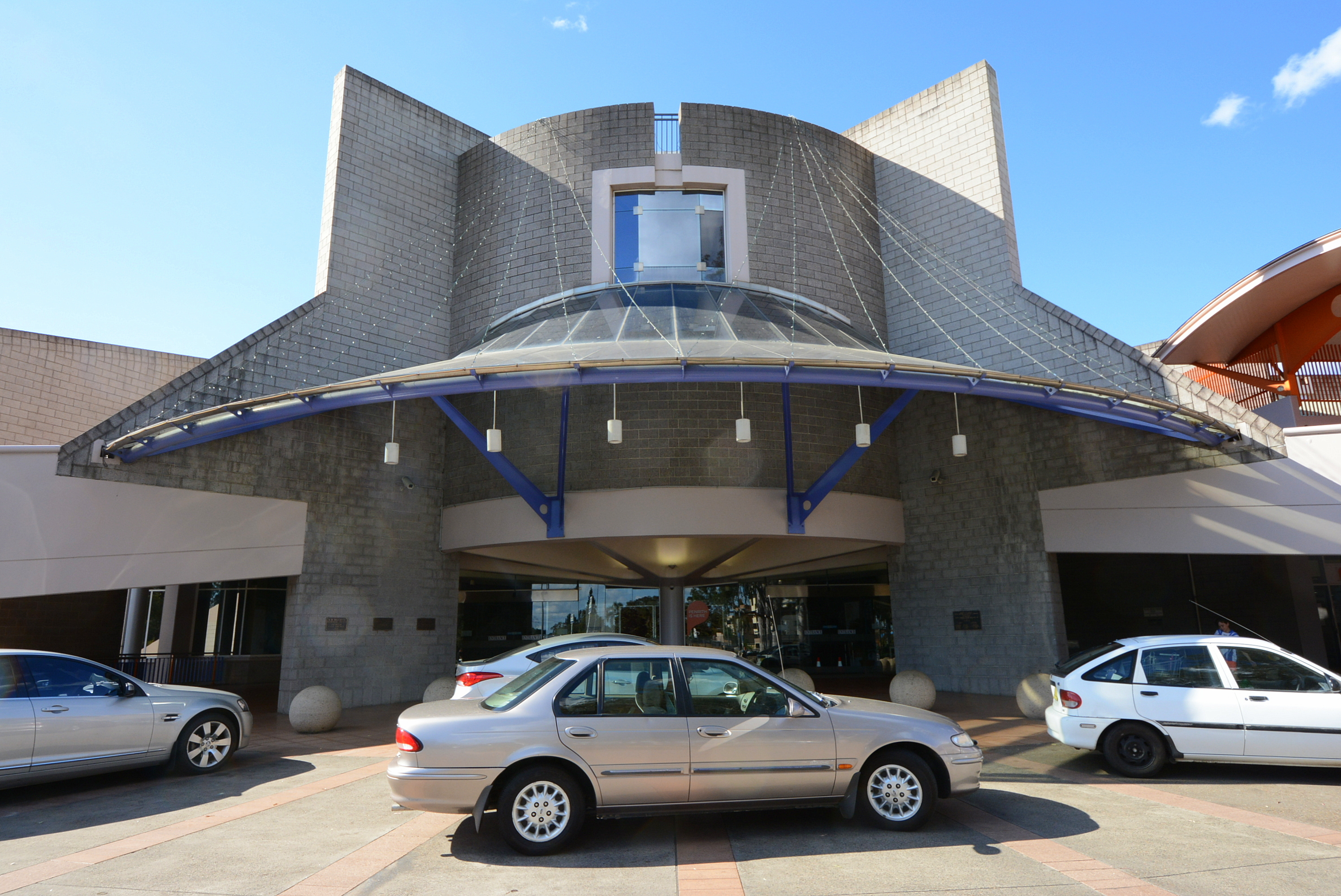 Penrith City Council, Penrith, Sydney